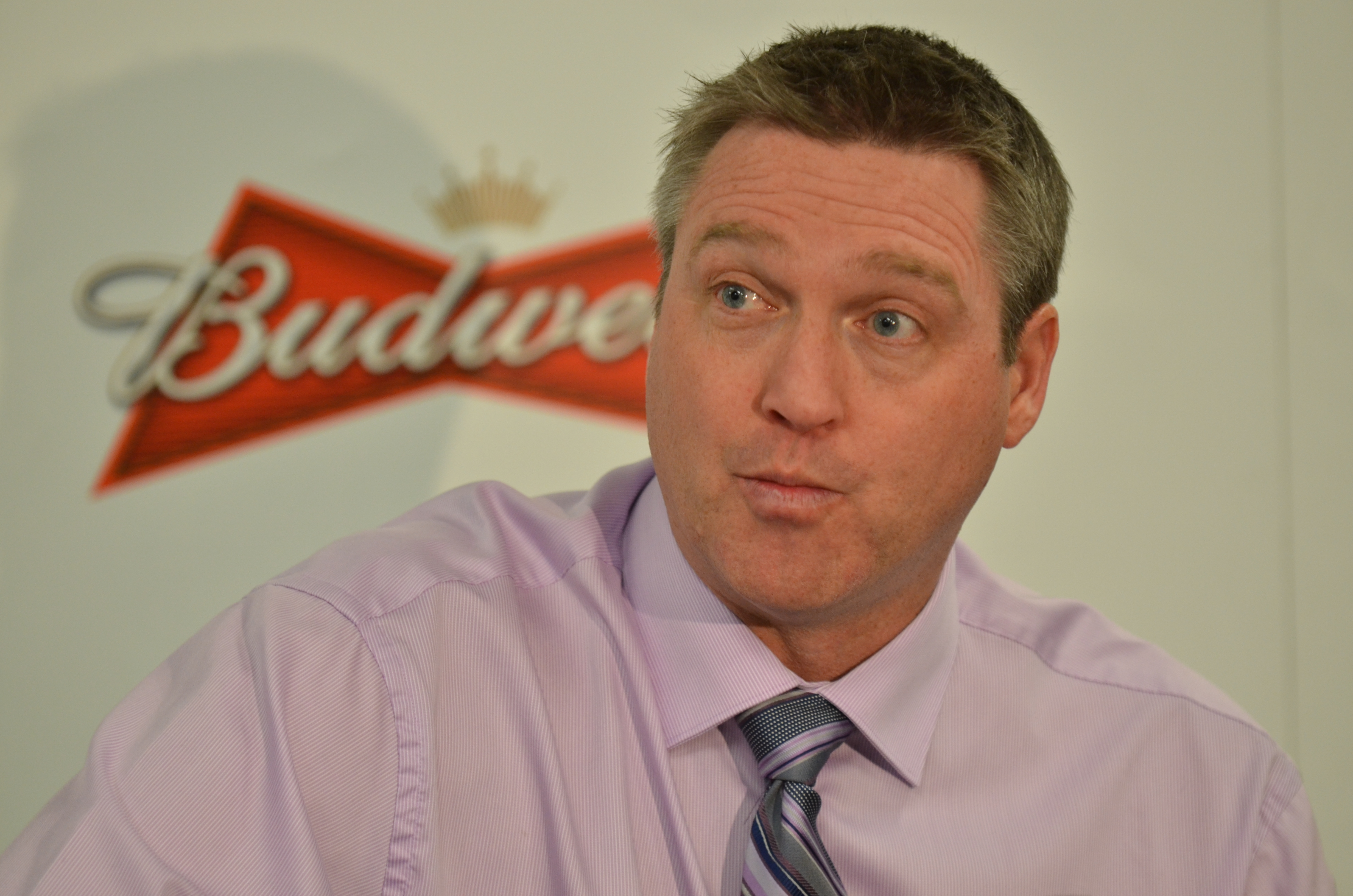 Patrick Roy during a press conference after a game between the Québec Remparts and Chicoutimi Saguenéens. This picture was made with the collaboration of the Québec Remparts hockey club.